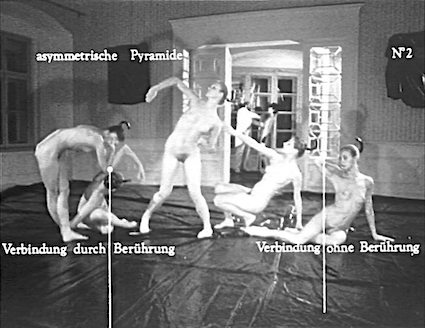 Professor Eberhard performs an avantgarde version of “Narcissus and Echo”